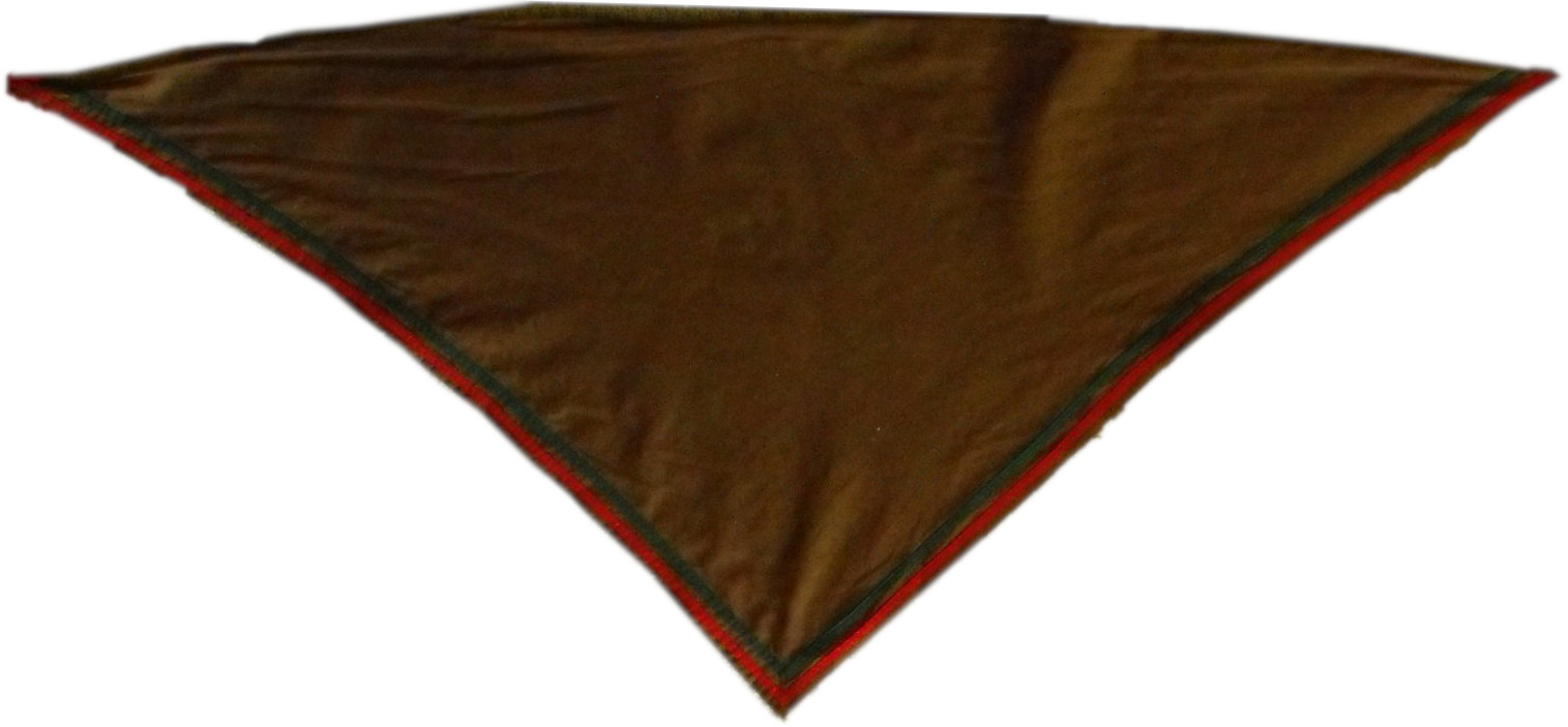 1st Cherrybrook Scout Group, New South Wales neckerchief